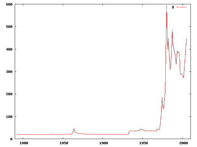 Average annual price of gold per troy ounce in United States dollars since 1793. Note for much of this time the gold standard was in effect, hence the lack of volatility during these times. Made with gnuplot.